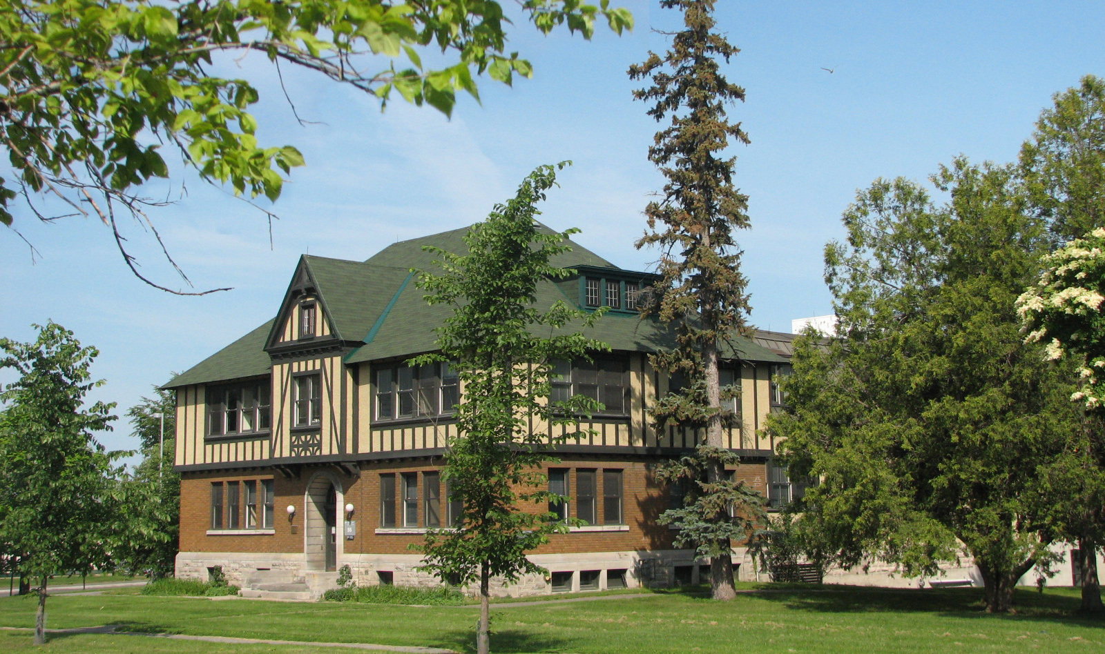 The Horticulture Building (Building No. 55) at the Central Experimental Farm in Ottawa, Ontario, Canada.